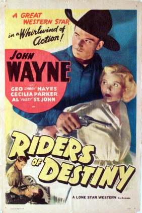 Poster for the 1933 film Riders of Destiny.